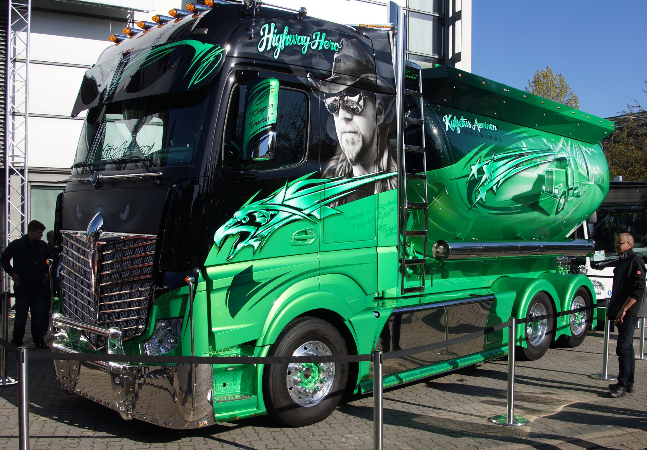 Actros 2551L of Mika Auvinen from Helsinki was the winner of "Nordic Trophy" on 23 August 2014 and subsequently exhibited at IAA 2014 in Hanover